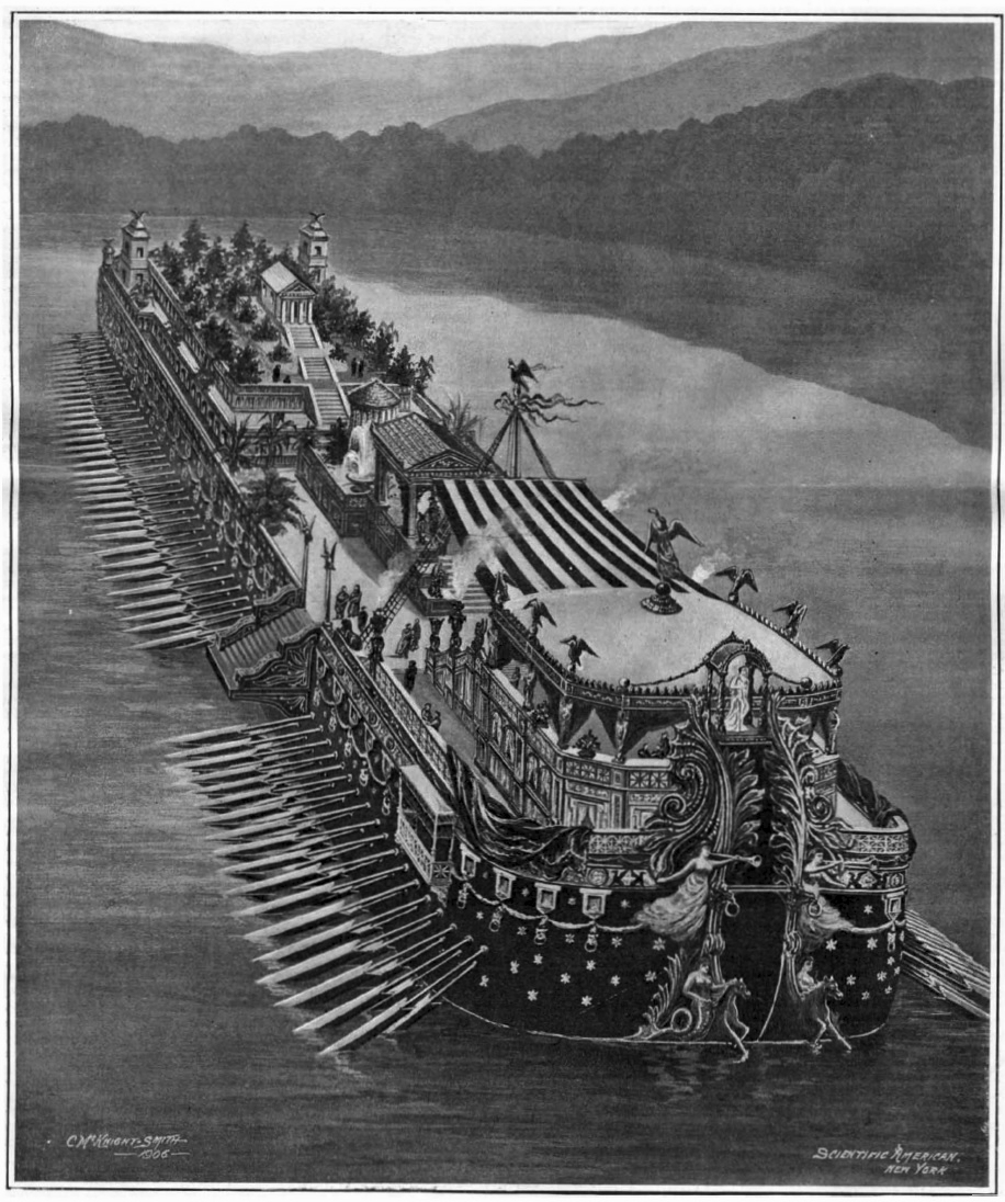 An artistic representation of a Nemi Ship by CM Knight-Smith from an issue of Scientific American, c. 1906